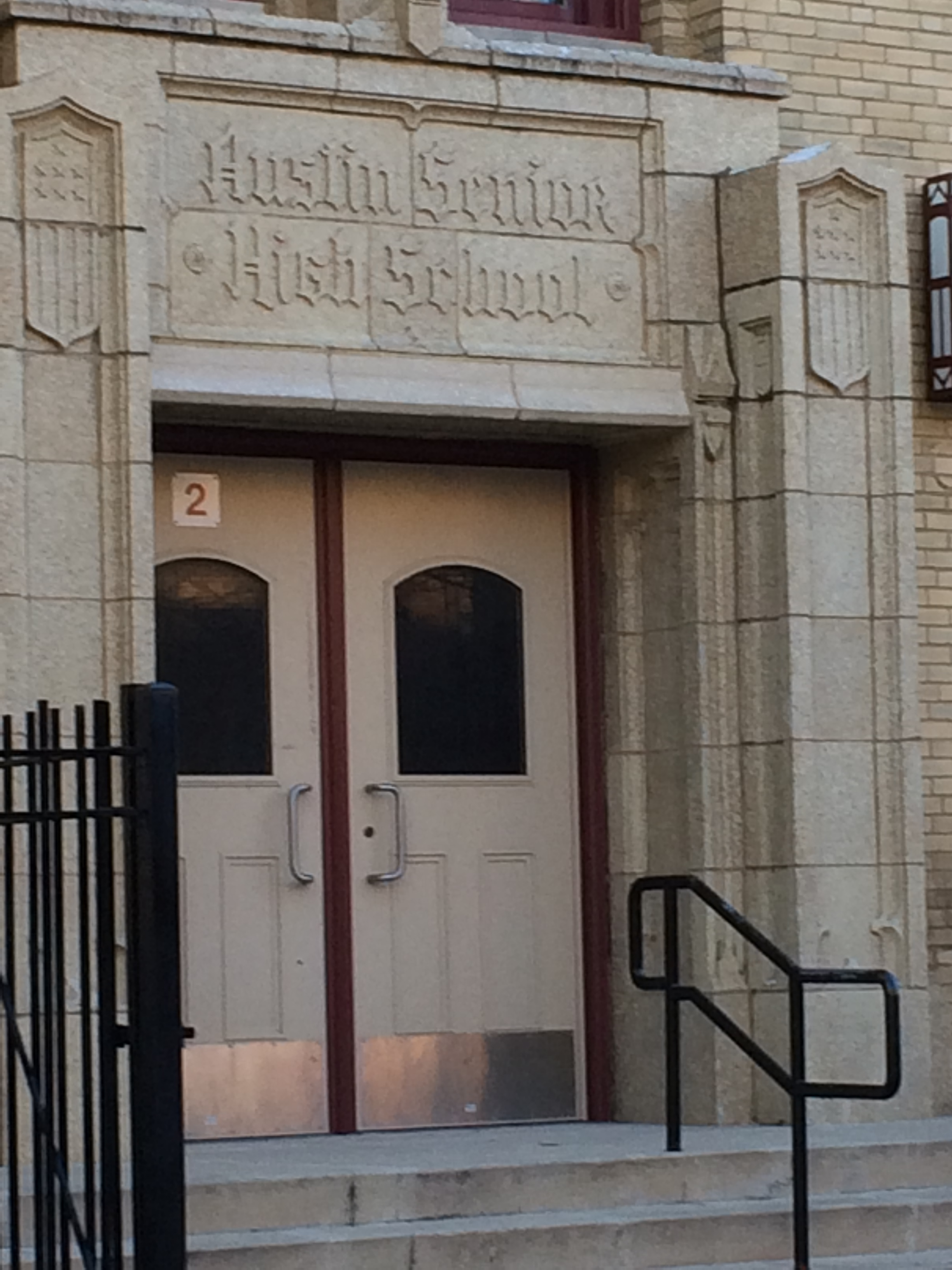 Door of Austin community academy high school in austin, chicago, il